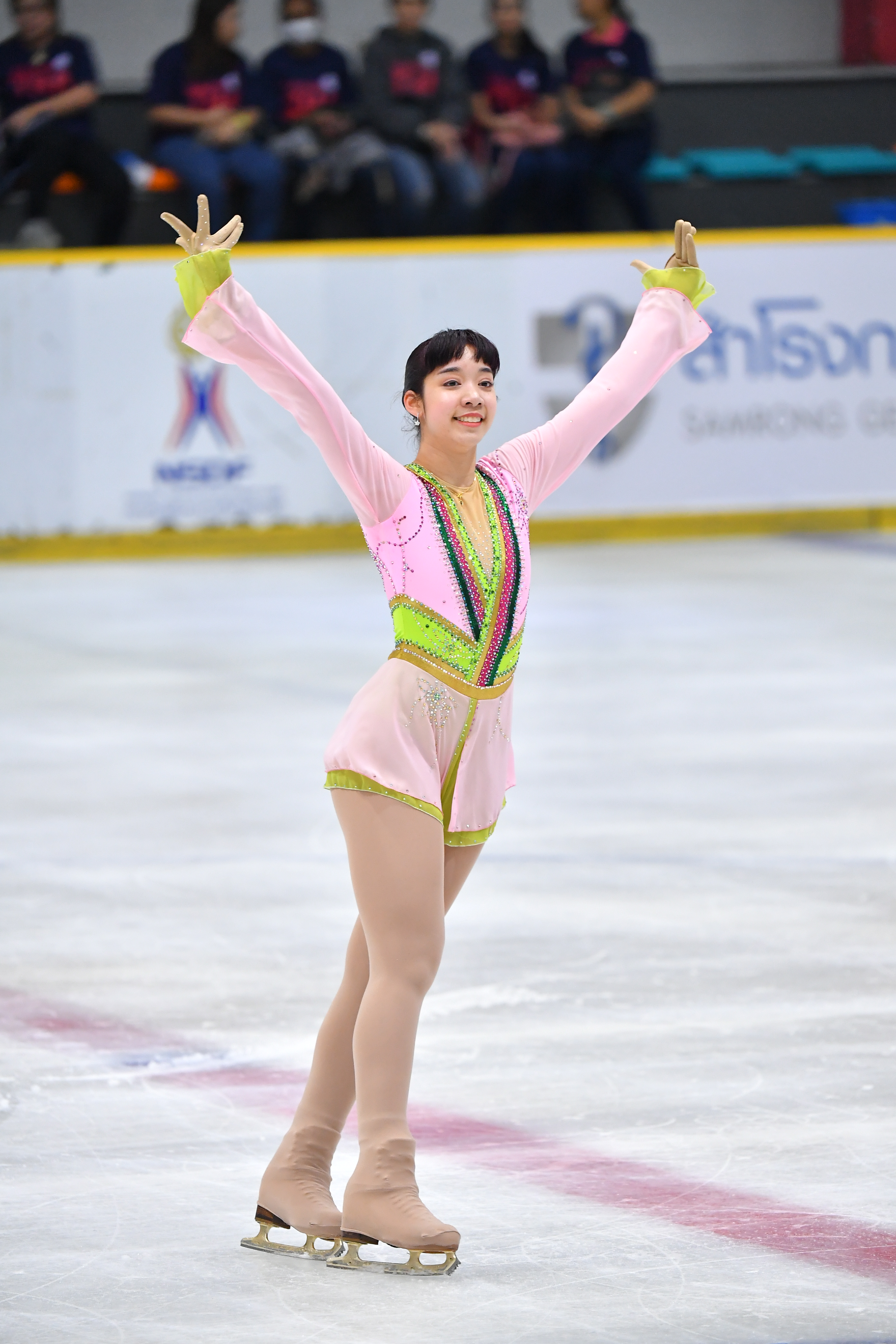 2019 Thailand National Figure Skating Championship